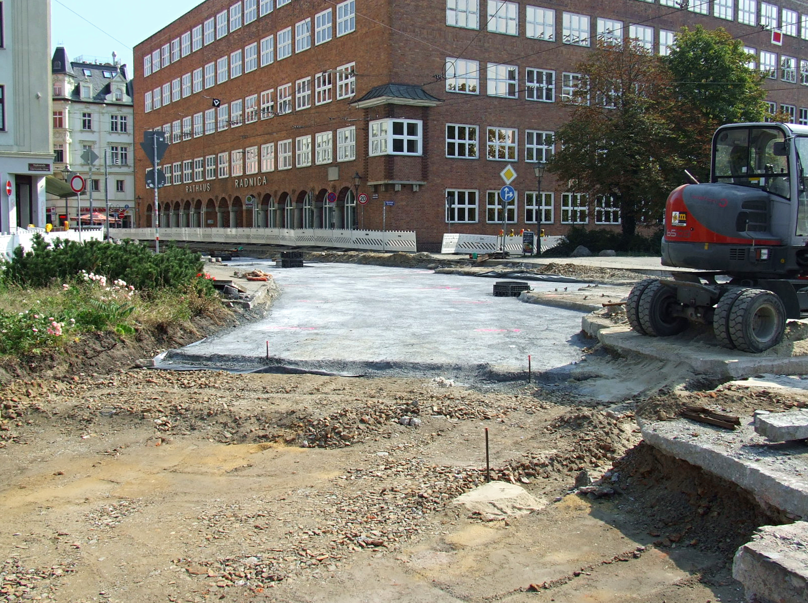 The new subgrade is being worked on.